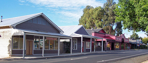 Palais